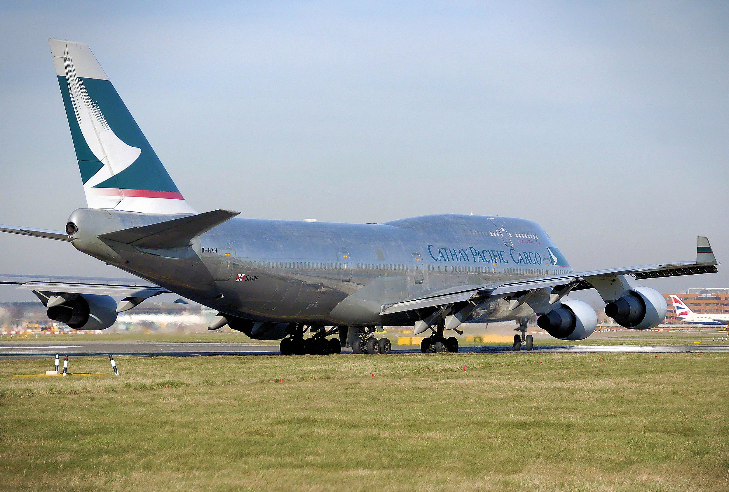 Cathay Pacific Cargo Boeing 747-400BCF (B-HKH) taxis to runway 23R at London Heathrow Airport, England. BCF means Boeing Converted Freighter).